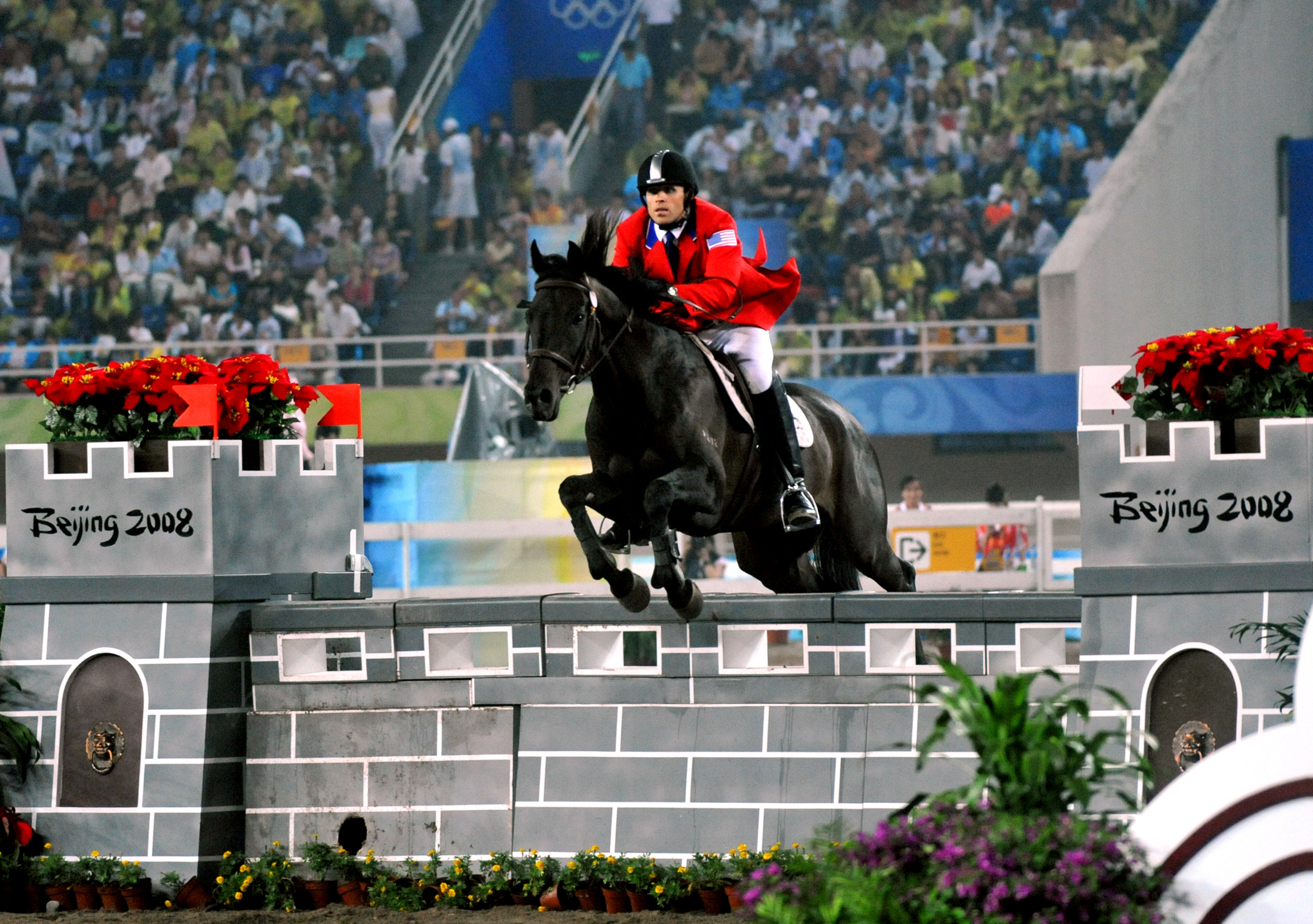 U.S. Air Force World Class Athlete Program Capt. Eli Bremer rides Dangdang to a 14th-place finish worth 1,060 points in the equestrian show jumping portion of the modern pentathlon, Aug. 21, 2008, at the Olympic Sports Center Stadium in Beijing. Bremer finished 23rd in the five-sport event that includes pistol shooting, fencing, swimming, riding show jumping and running with 5,204 points.